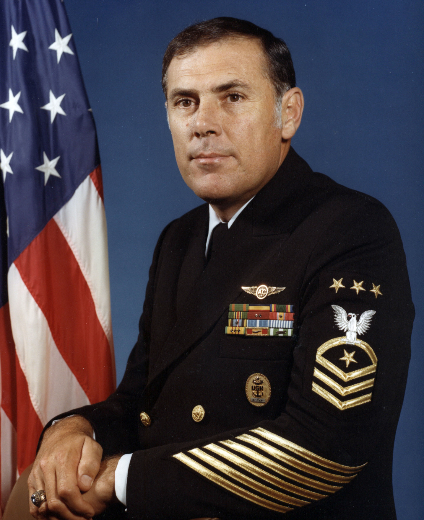 Retired Master Chief Petty Officer of the Navy (MCPON) Tom Crow died of cancer Sunday, Nov. 30th at his home in San Diego. He was 74. Crow was selected for MCPON in June, 1979. During his time in office, he was instrumental in the opening of the Navy's Senior Enlisted Academy and the re-emphasis on pride and professionalism across the Fleet. (U.S. Navy Photo/Released)